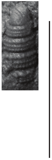 Black-and-white photo of abapertural view of paratype Potamides archiaci PG/K/Cr 49. Scale bar is 10 mm.